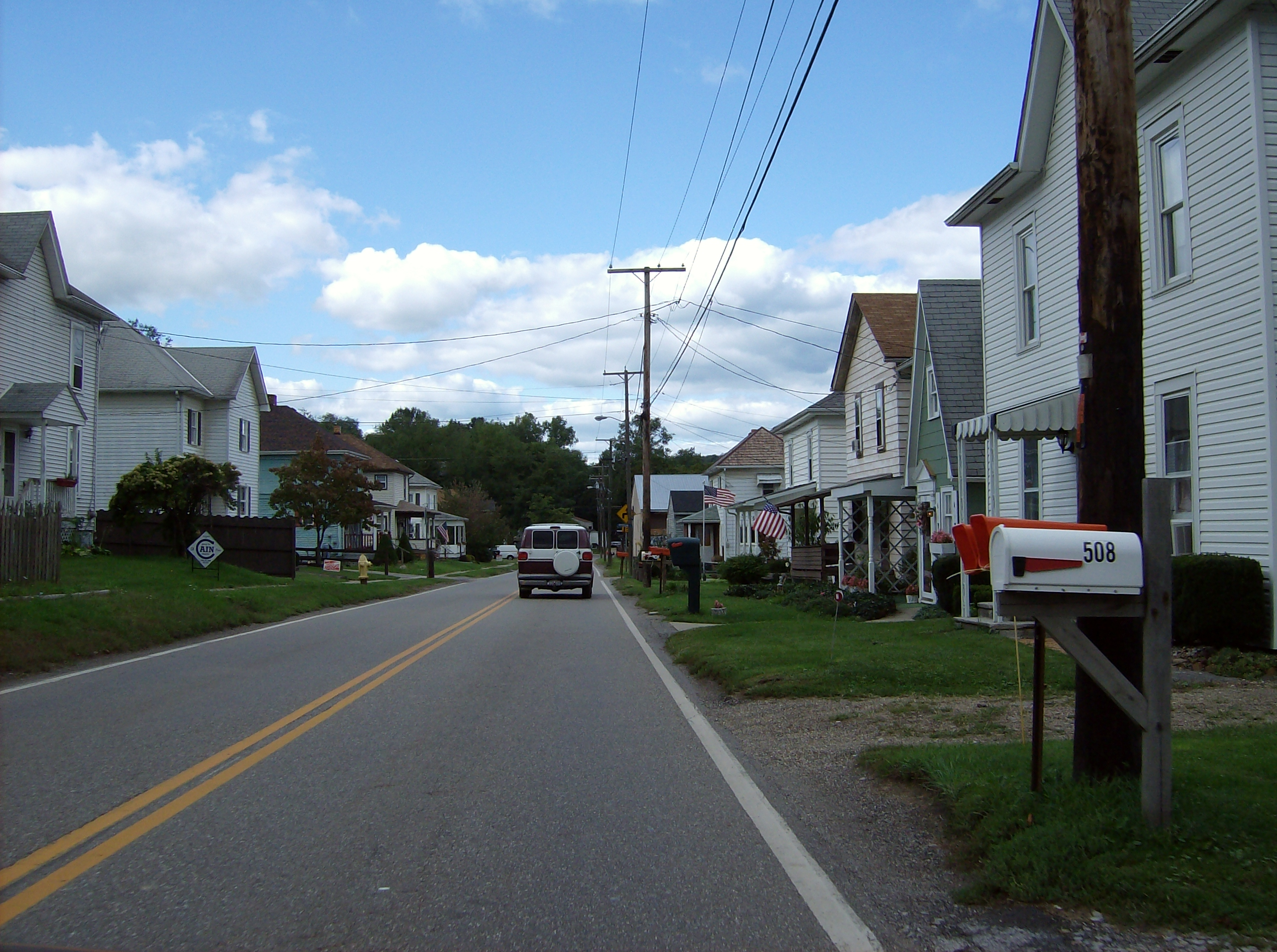 Entering Amsterdam, a village in northwestern Jefferson County, Ohio, United States, along westbound State Route 43.